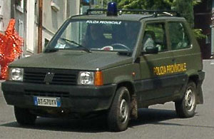 Fiat Panda Mk1 police car in Italy